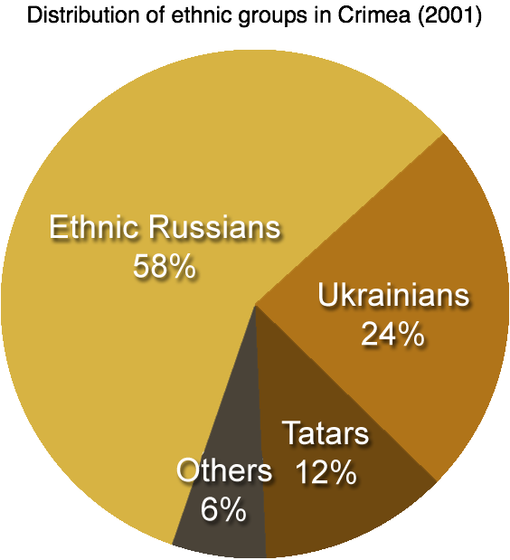 Distribution of ethnic groups in Crimea 2001